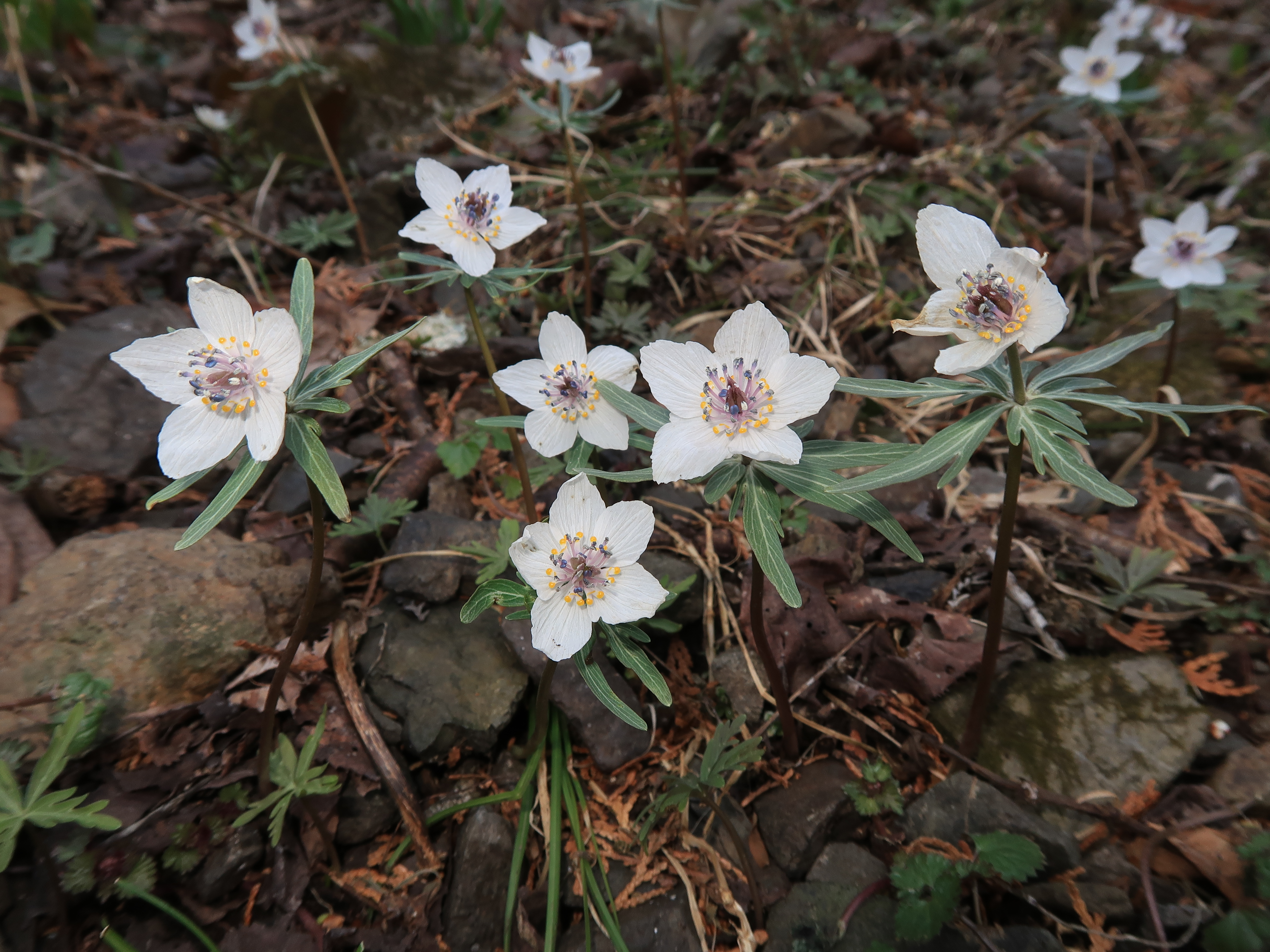 Eranthis pinnatifida, South area, Tochigi pref., Japan